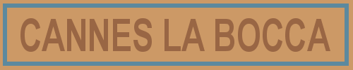 Reproduction of the tiled station sign of Cannes la Bocca, Alpes-Maritime.